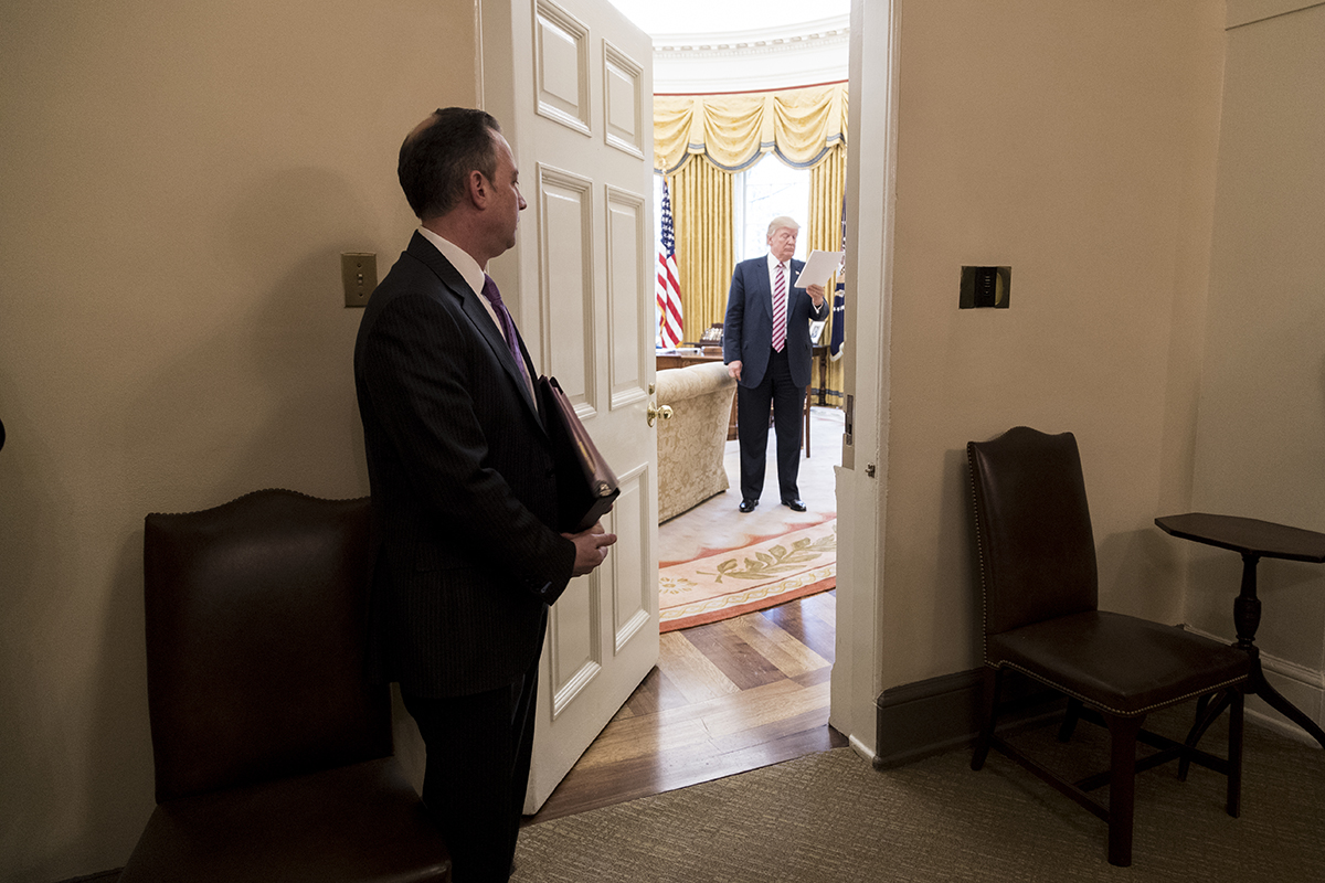 Chief of Staff Reince Priebus looks into the Oval Office as President Donald Trump reads over his notes, Friday, March 10, 2017, prior to meeting with key House Committee Chairmen at the White House. (Official White House Photo by Shealah Craighead)